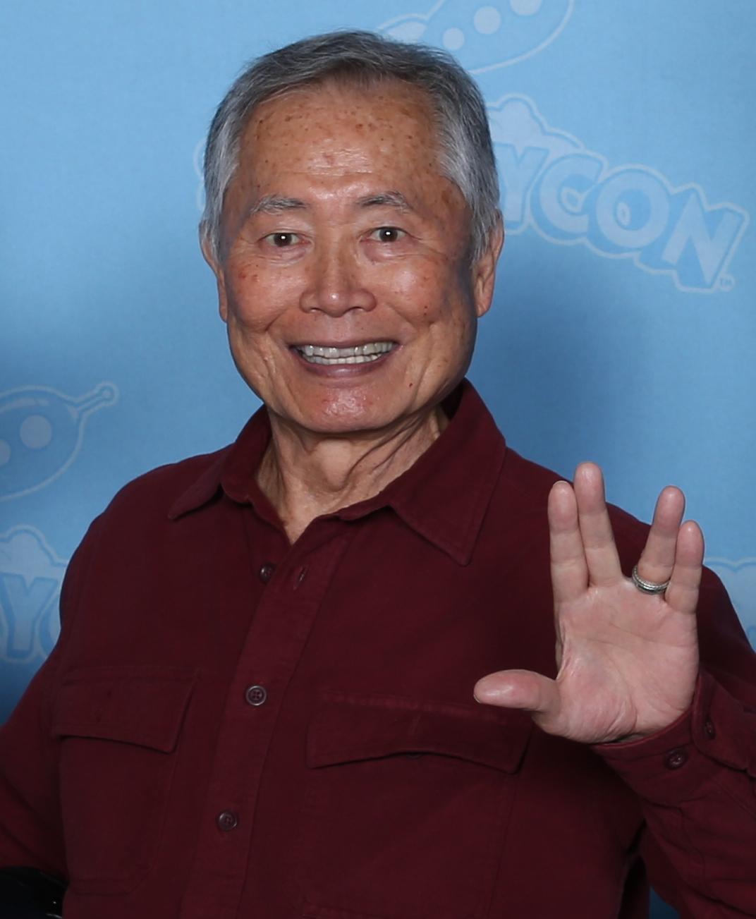 George Takei at GalaxyCon Minneapolis in 2019